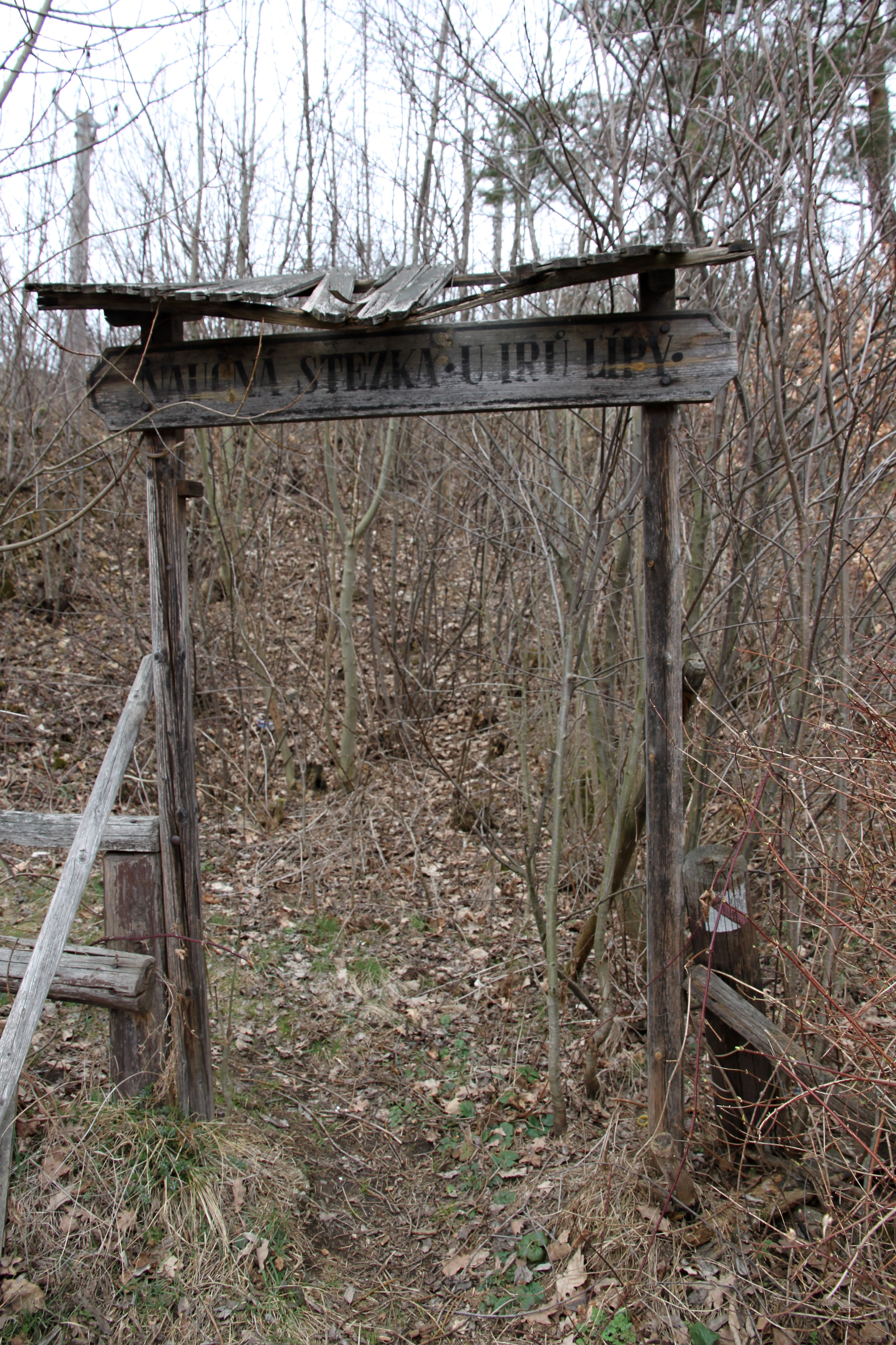 Entrance to the educational trail U Irů lípy, which passes through the surroundings and the natural monument Irův dvůr on the eastern periphery of Prachatice, South Bohemian Region, Czechia.